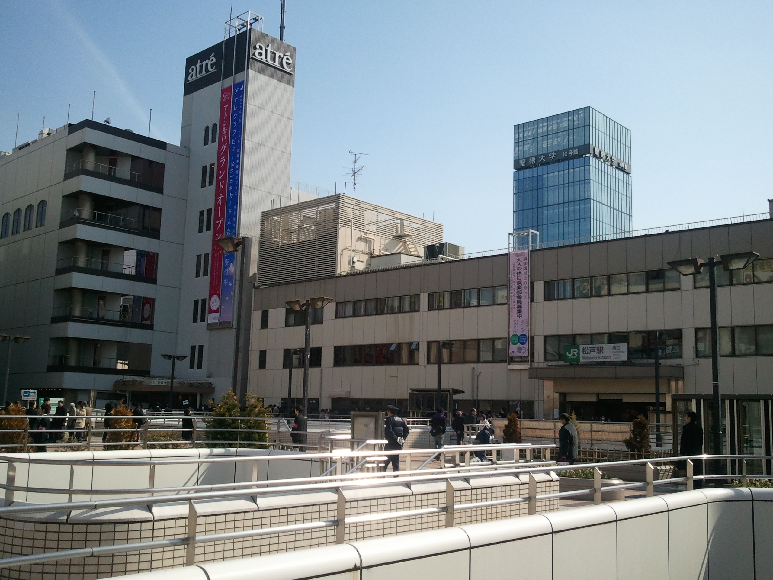 JR Matsudo Station and atré Matsudo